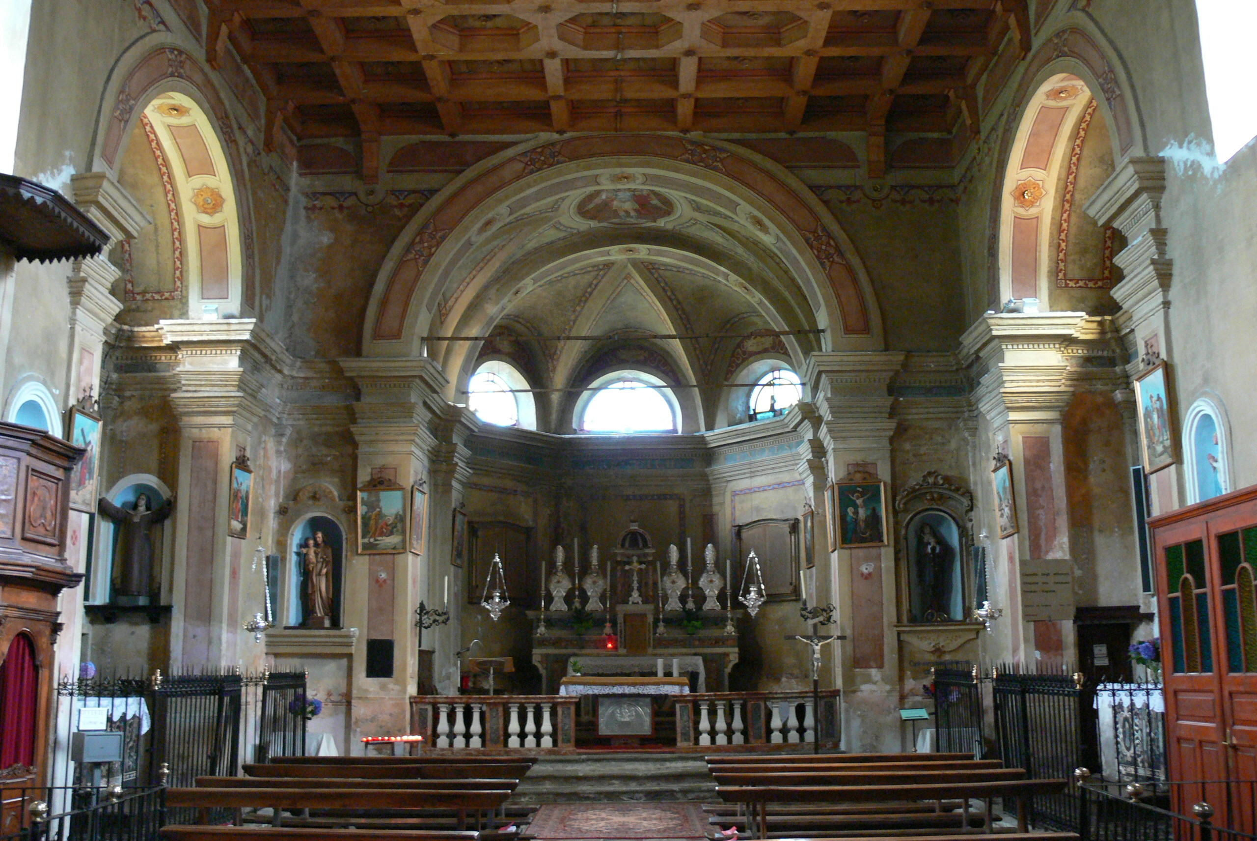 Palagnedra ( Locarno ). Saint Michael parish church - Interior.